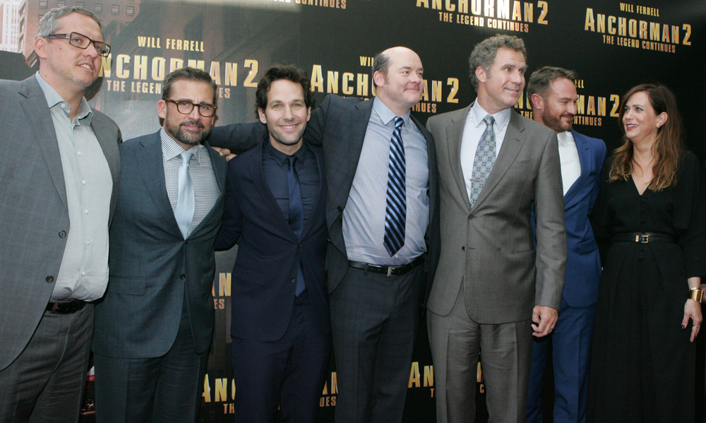 Anchorman 2 The Australian Premiere The Legend Continues